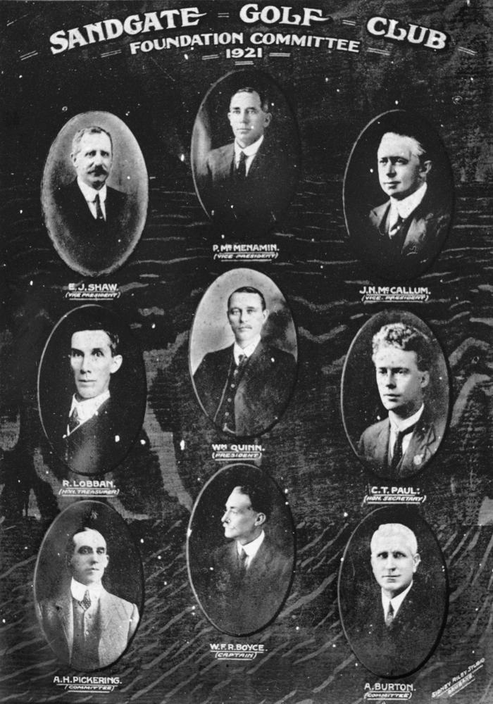 Portraits of the Sandgate Golf Club foundation committee, 1921 Back row: E. J. Shaw (Vice President); P. McMenamin (Vice President); J. N. McCallum (Vice President). Middle row: R. Lobban (Hon. Treasurer); W. M. Quinn (President); C. T. Paul (Hon. Secretary). Front row: A. H. Pickering (Committee); W. F. R. Boyce (Captain); A. Burton (Committee). J. N. McCallum was from the Cremorne Theatre. (Description supplied with photograph.).